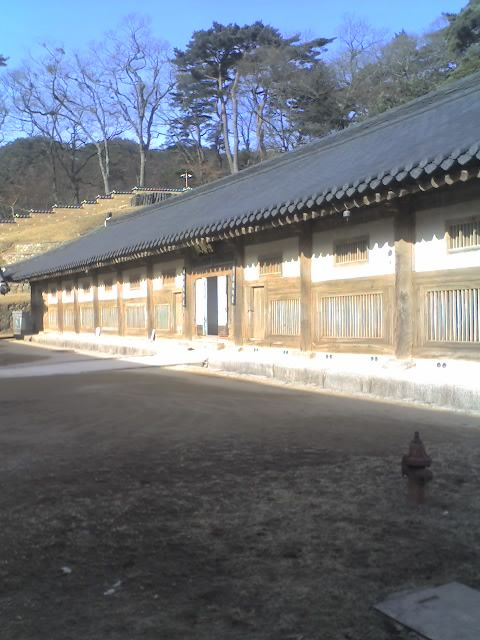 Building within area of Haeinsa temple in South Corea